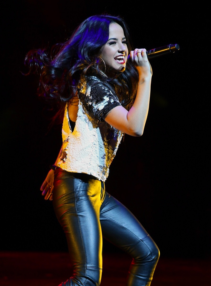 Becky G performing in December 2013 in Chicago